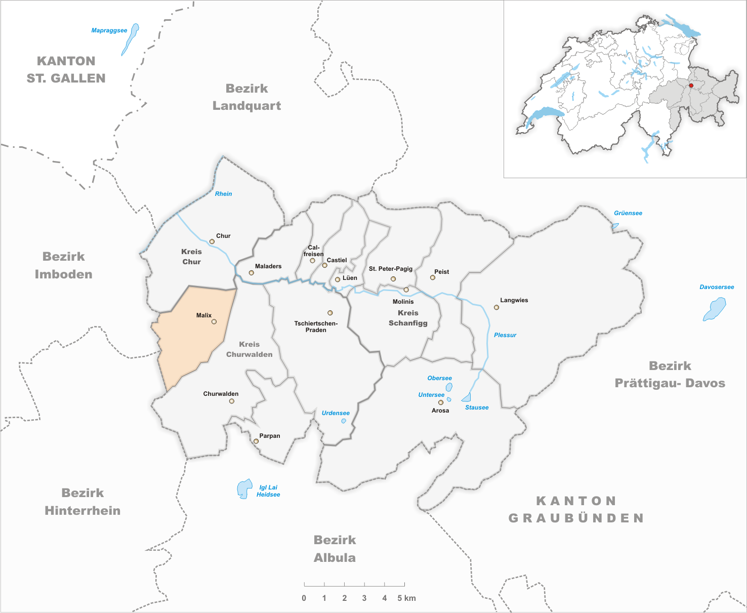 Municipality Malix